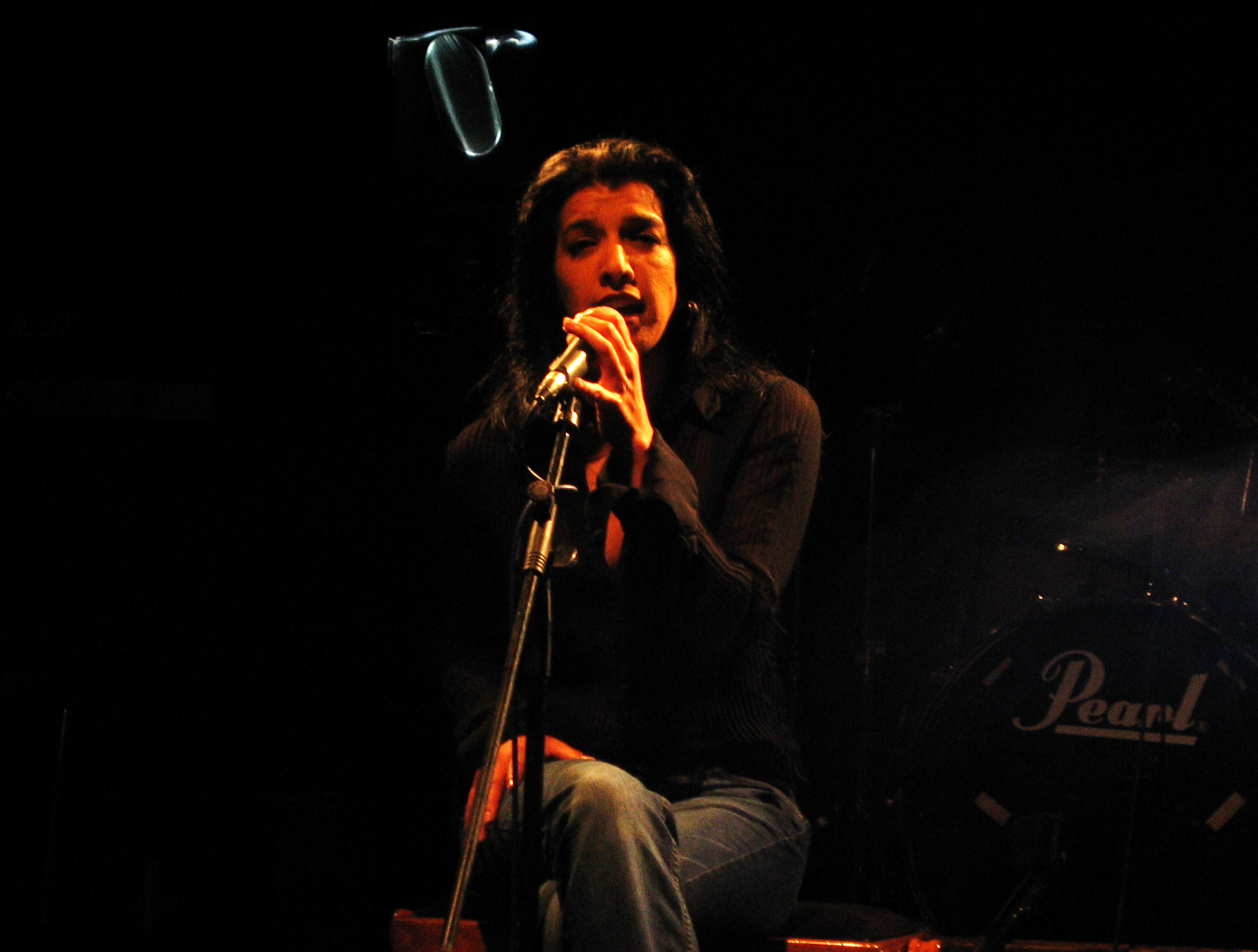 Dikla, an israeli vocalist, During a performance in april 2014.